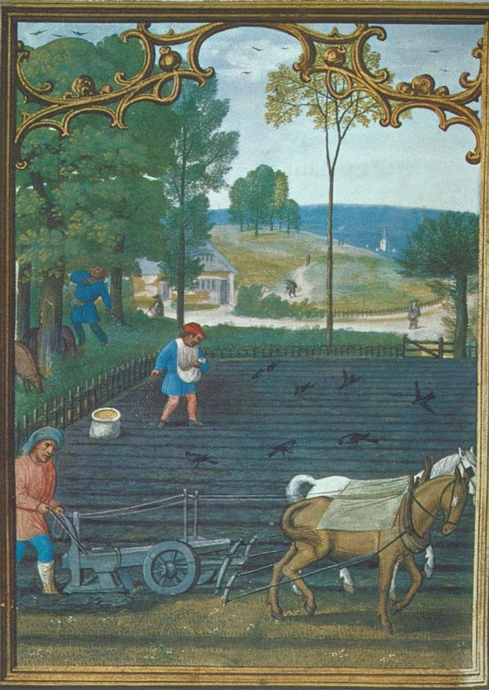 The Medieval Plow (Moldboard Plow).